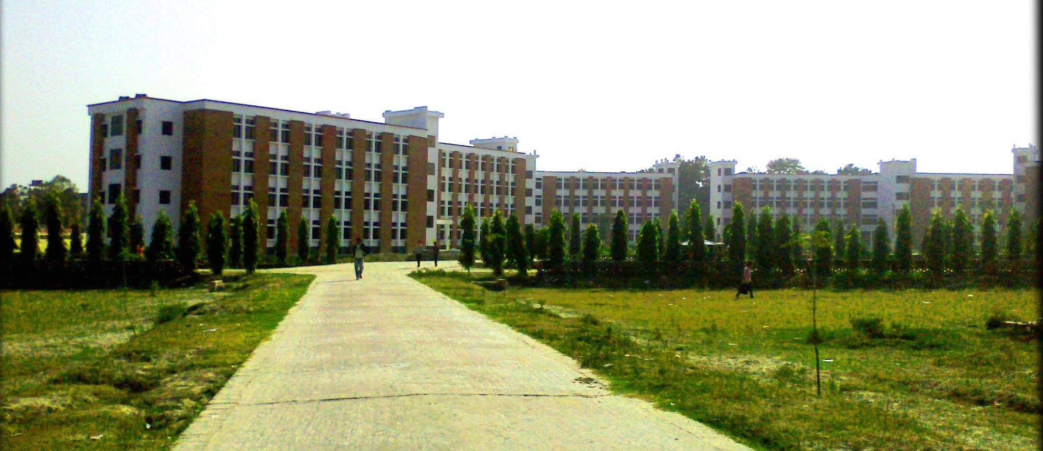 Its A picture of Begum Rokeya University, Rangpur